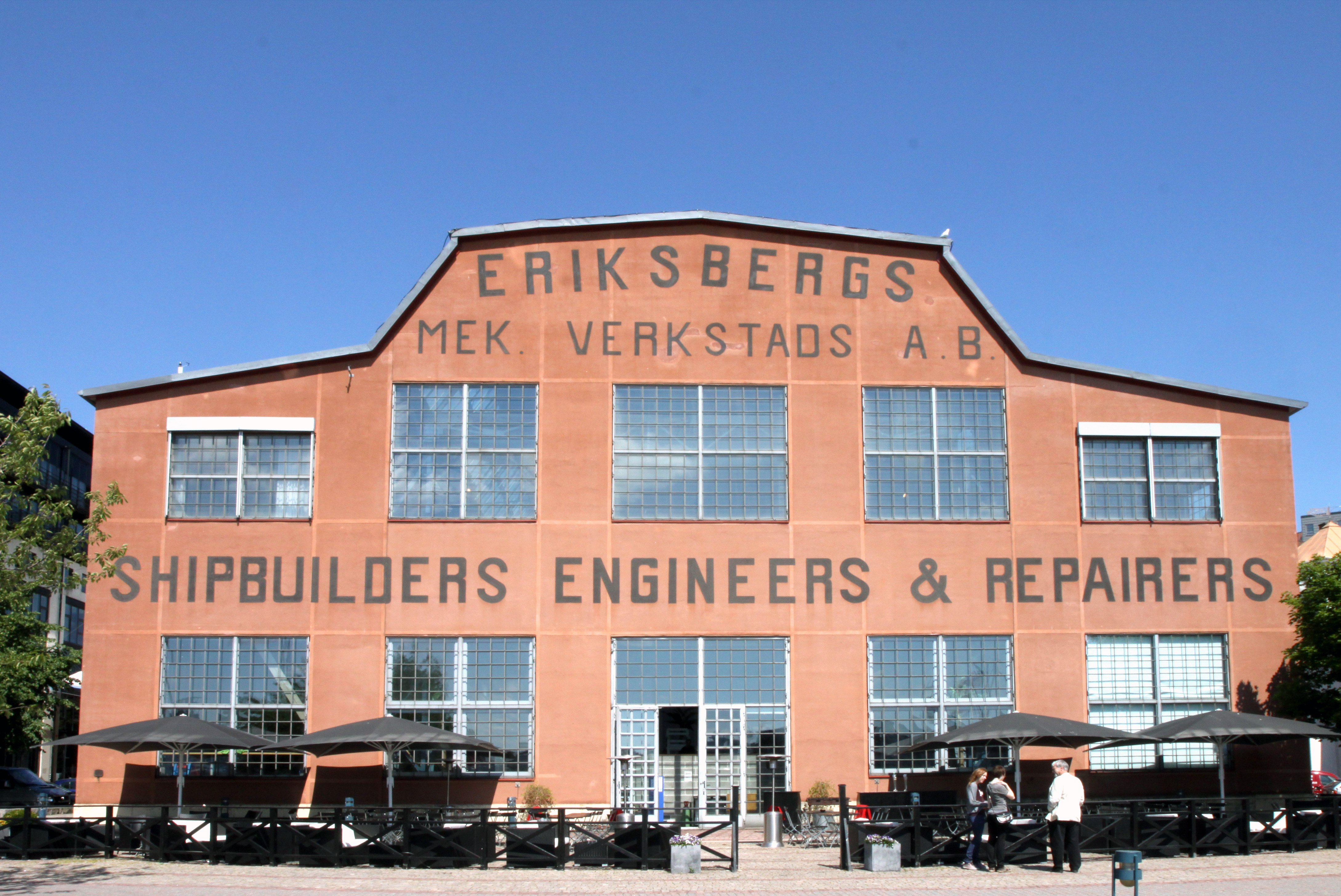 Front of Eriksbergshallen, which also used to be "Eriksbergs mekaniska verkstad". It is now used as a venue in Gothenburg, Sweden